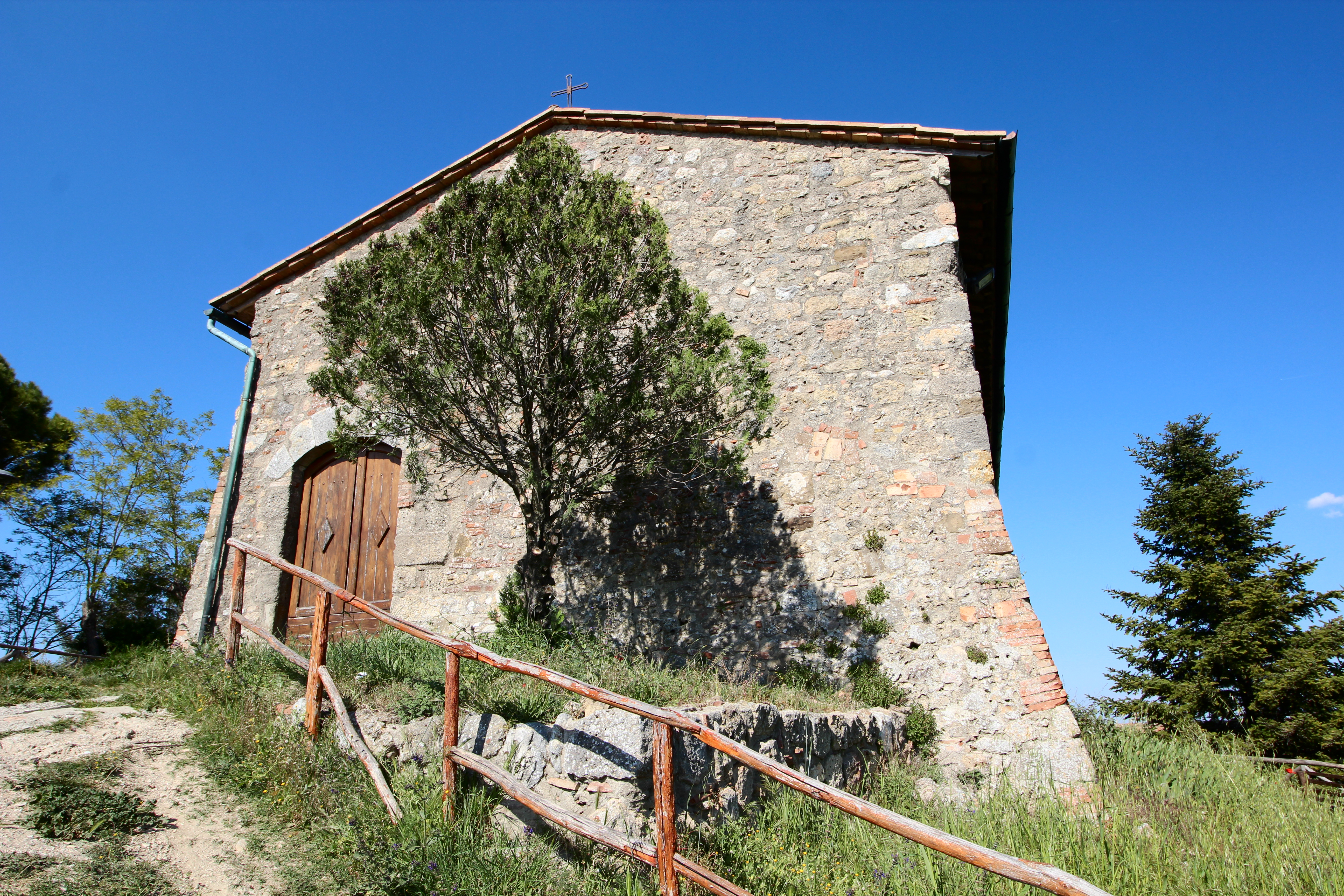 Church San Biagio, in Mensano, hamlet of Casole d’Elsa, Province of Siena, Tuscany, Italy